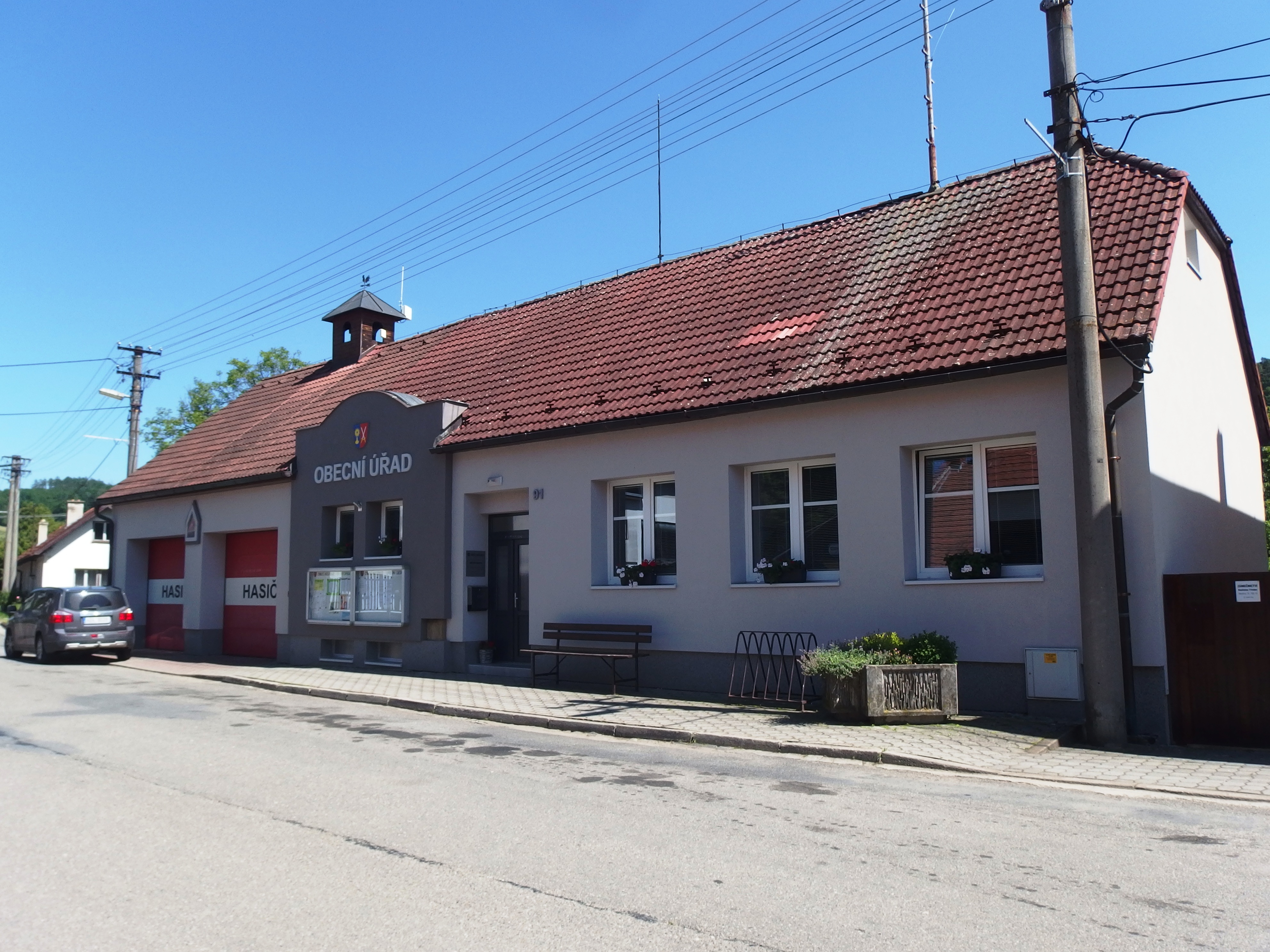 Neubuz, Zlín District, Czech Republic.